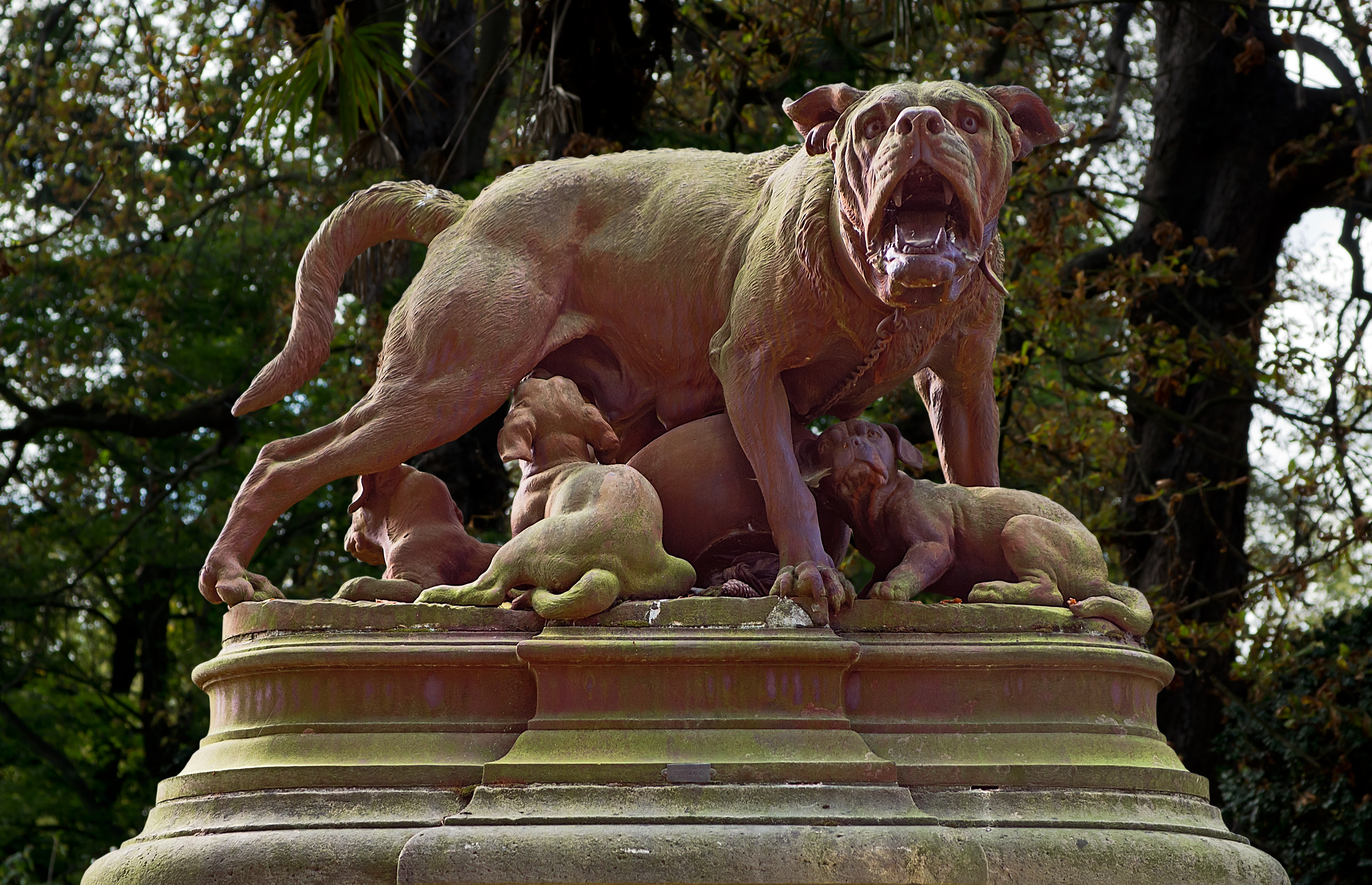 Pierre Louis Rouillard, Antoine Durenne, founder. Cast iron (the copy group of bronze statues, yard Lefuel, Louvre). Work acquired by the city of Toulouse during the Exhibition of 1865. Locality: Entrance to the Garden of the “Grand Rond” in Toulouse.